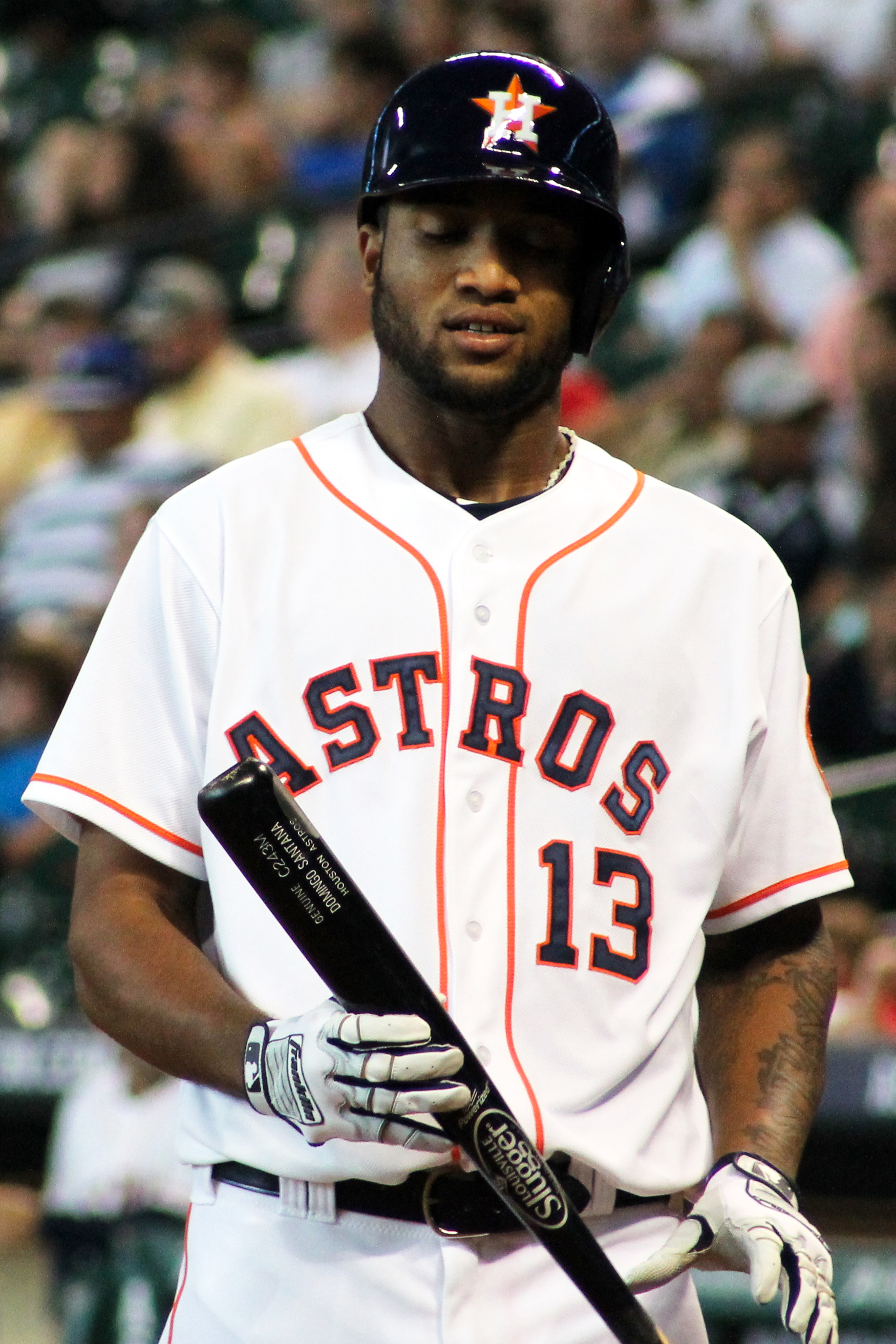 Major League Baseball player Domingo Santana at bat at Minute Maid Park in July 2014.